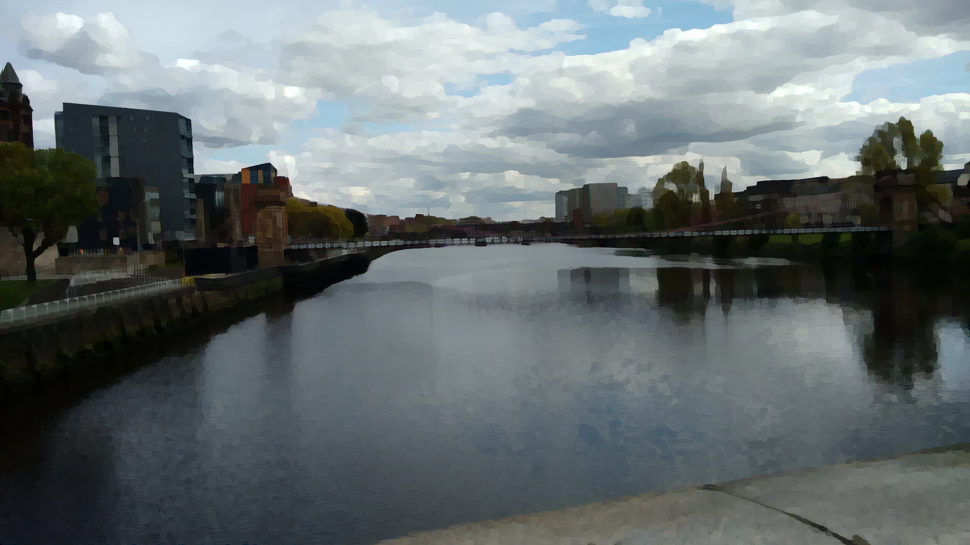 Imagem com filtro de Kuwahara aplicado com fator de 21